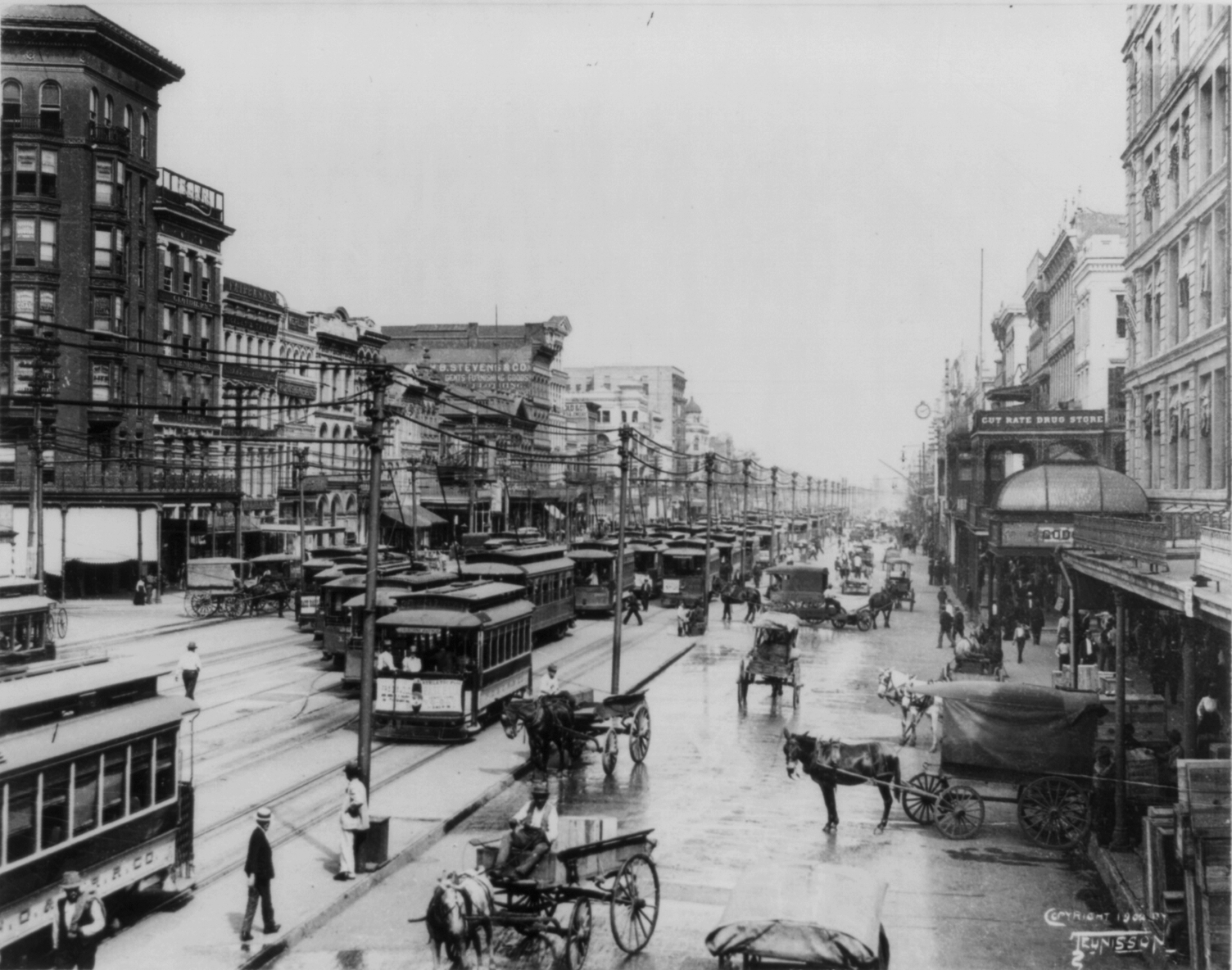 Louisiana - New Orleans - crowded street scene looking back on Canal Street. 1902 view looking lakewards from Camp Street, with many streetcars, horse wagons, along Canal Street.